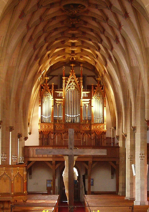 Orgel